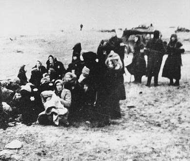 Jewish women are gathered for execution on a beach near Liepāja. Fragment of a photo in Bundesarchiv